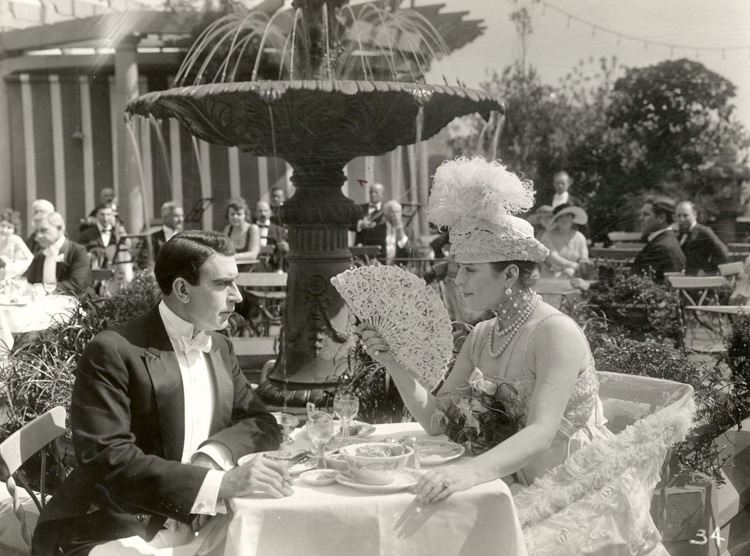 Still from the American drama film A Rich Man's Plaything (1917).